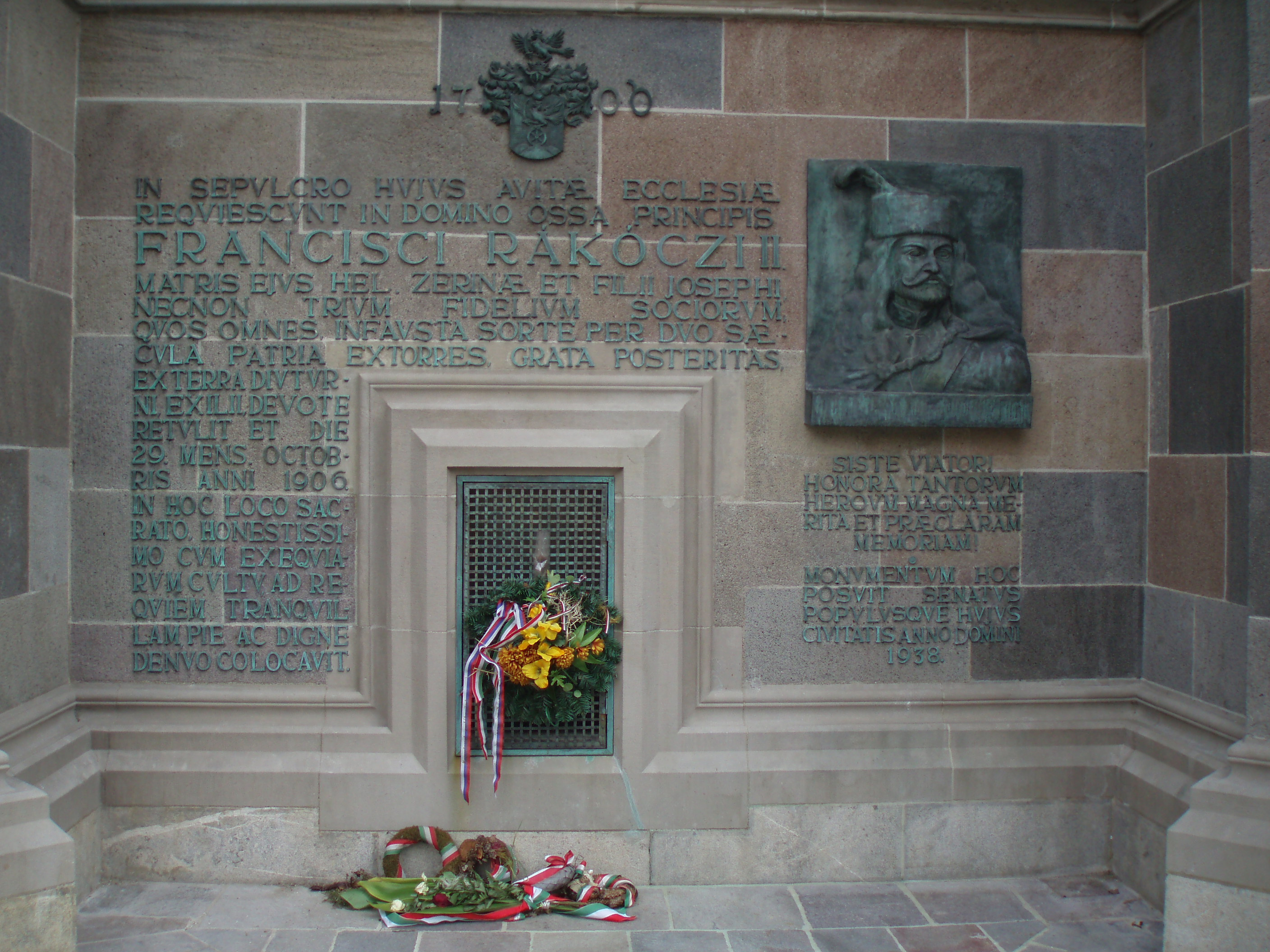 Francis II Rákóczi´s memorial, St.Elisabeth Cathedral, Košice, Slovakia. Latin inscription: "In sepulcro hujus avitae ecclesiae requiescunt in Domino ossa principis Francisci Rákóczi II, matris ejus Hel. Zerinae et filii Josephi necnon trium fidelium sociorum, quos omnes infausta sorte per duo saecula patria extorres, grata posteritas ex terra diuturni exilii devote retulit et die 29. mens. octobris anni 1906 in hoc loco sacrato, honestissimo cum exequiarum cultu ad requiem tranquillam pie ac digne denuo colocavit. Siste viator! Honora tantorum herorum magna merita et praeclaram memoriam. Monumentum hoc posuit senatus populusque hujus civitatis anno Domini 1938."